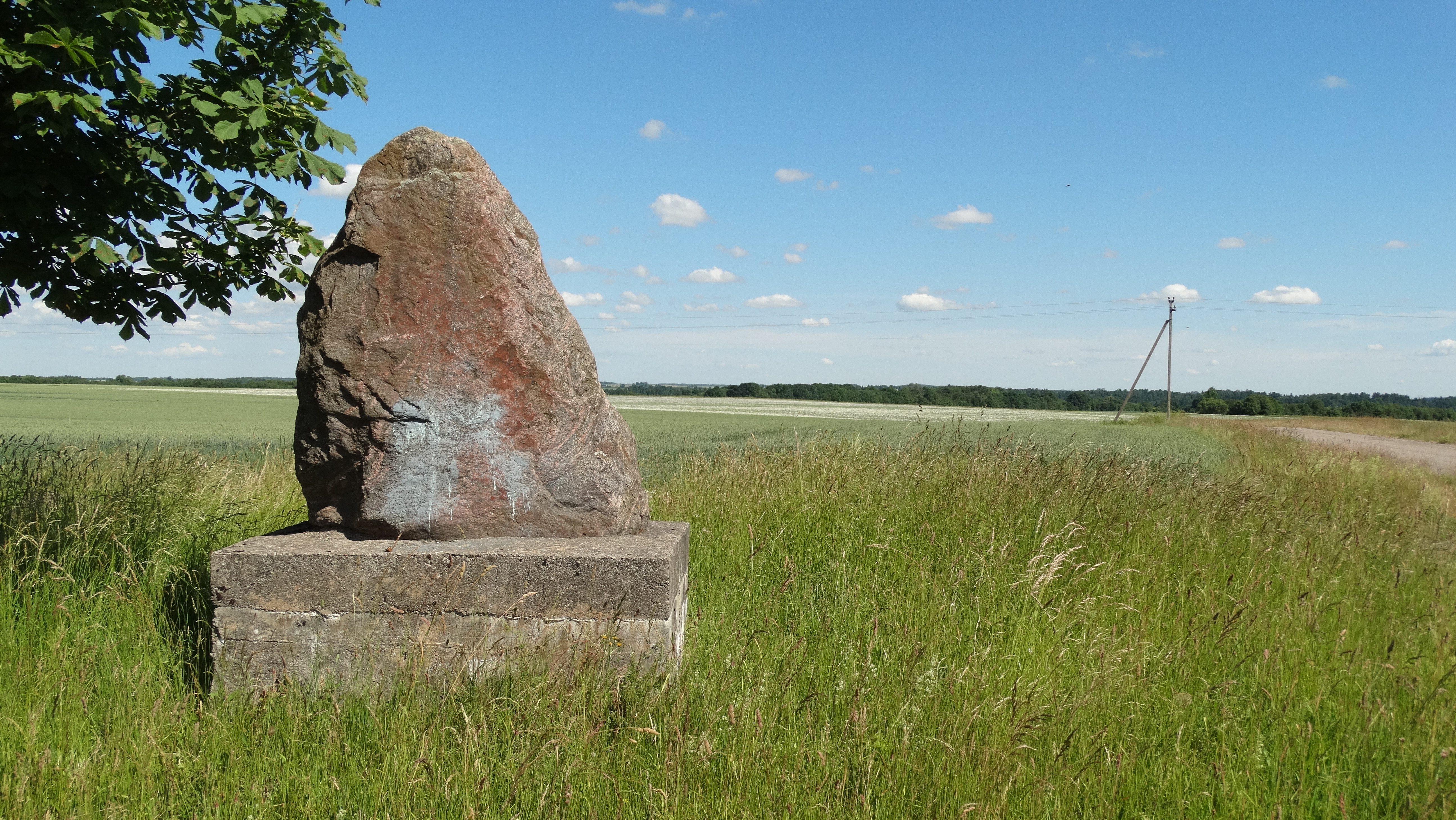 Plembergas, Raseiniai district, Lithuania